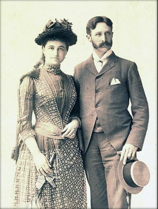 Rosalie (Rose) Amelia Selfridge (nee Buckingham) 1890, wife of Harry Gordon Selfridge